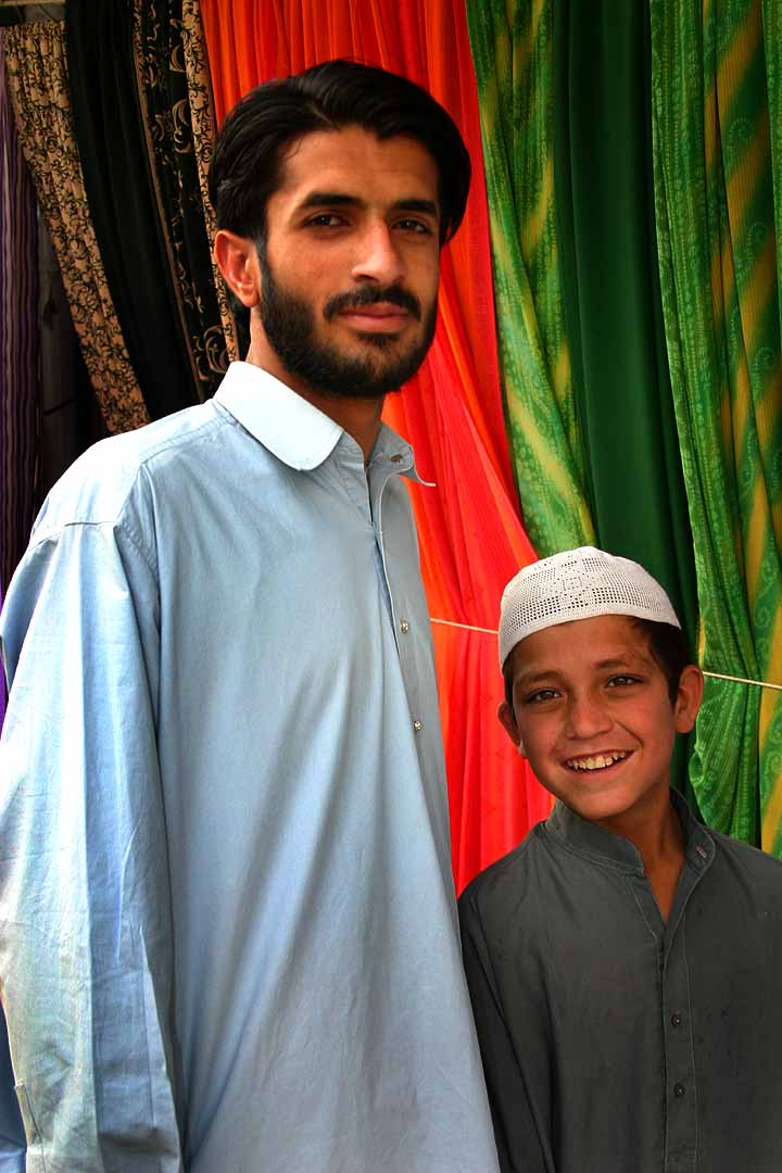 Panjabi father and son from Pakistan